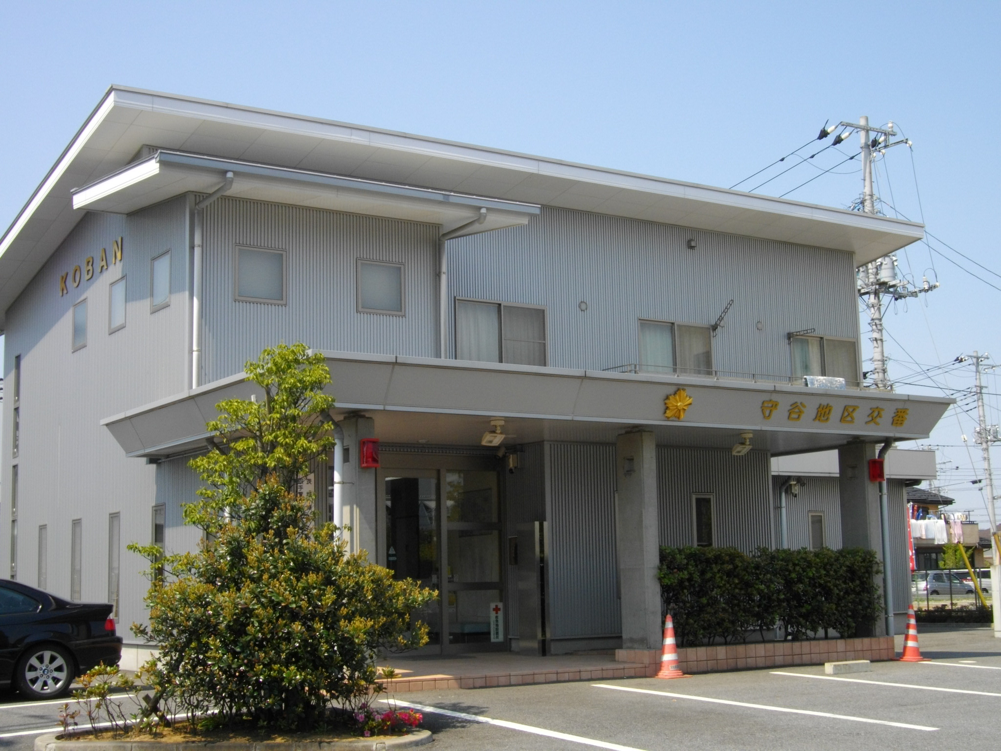 Moriya Chiku-Koban(Large-size Koban)